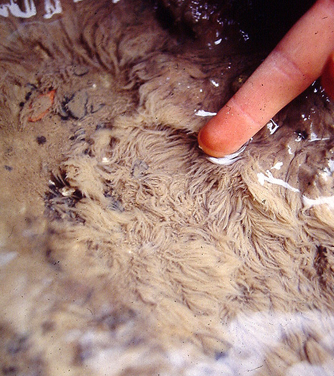 bacterian pollution (mostly sphaerotilus natans) of river Aa (north of France) because of pollution from paper plants.